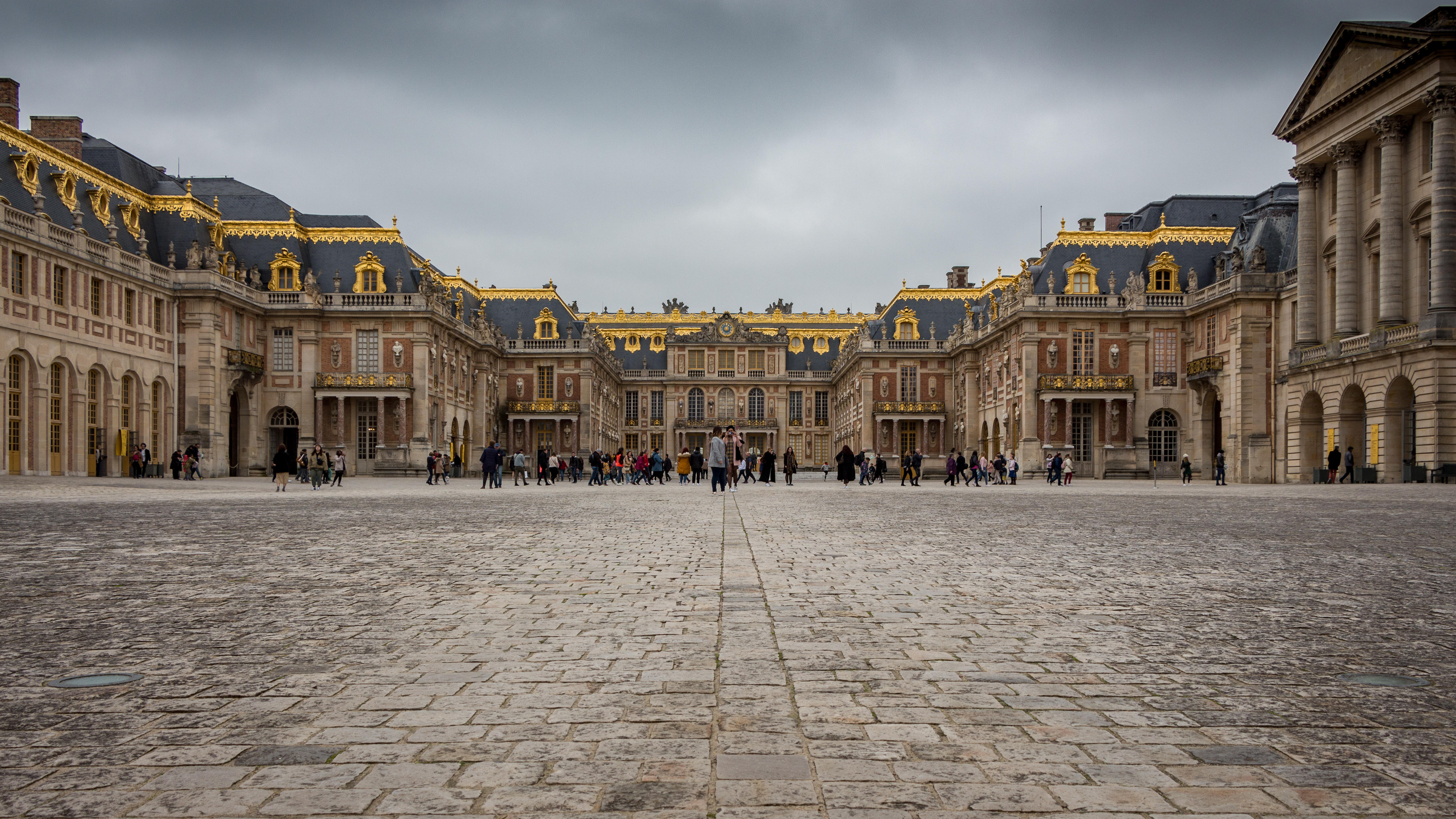 Versailles castle